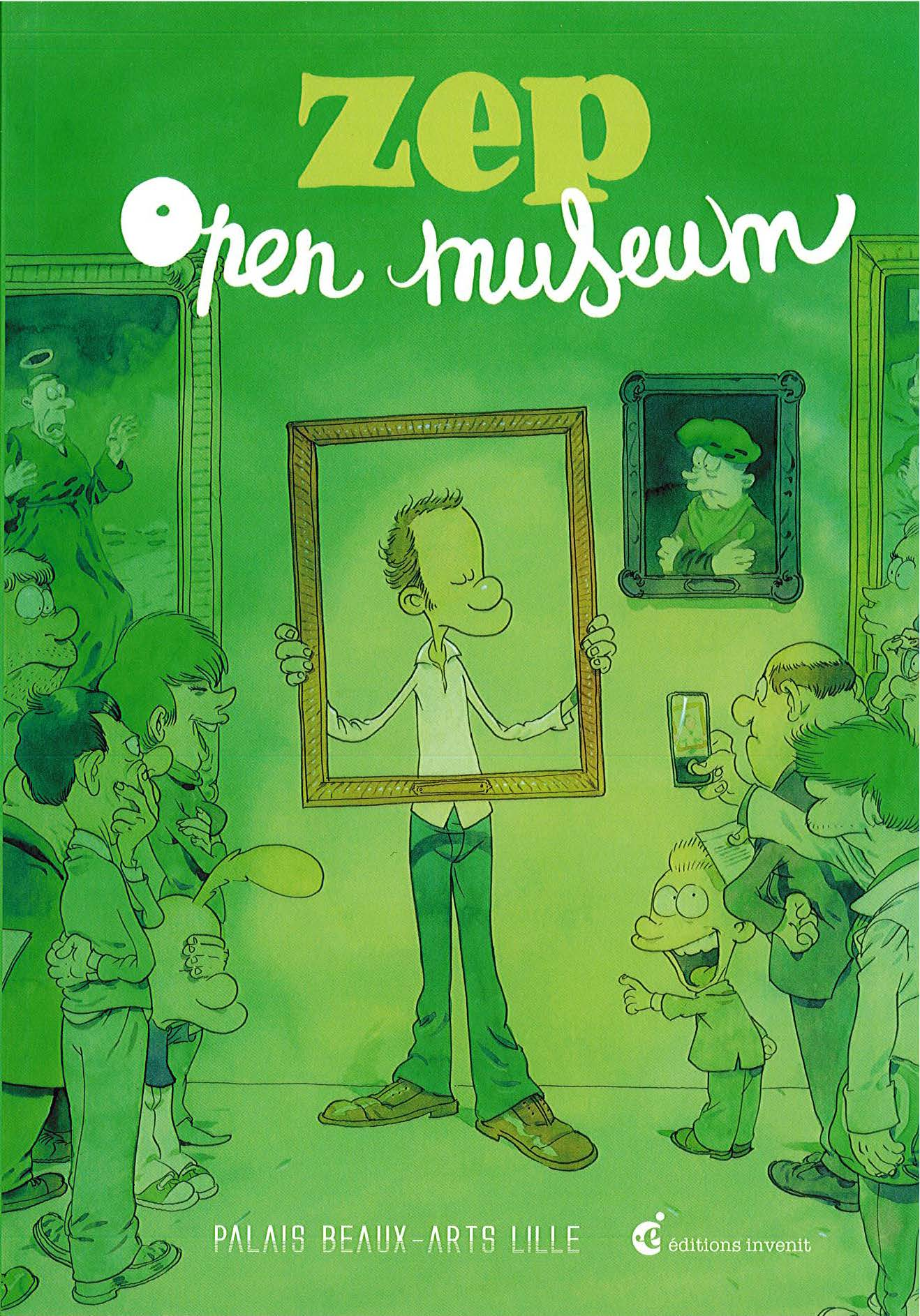 The book of the open museum "Zep" which took place at the museum from the 18th of march to the 31th of october 2016.